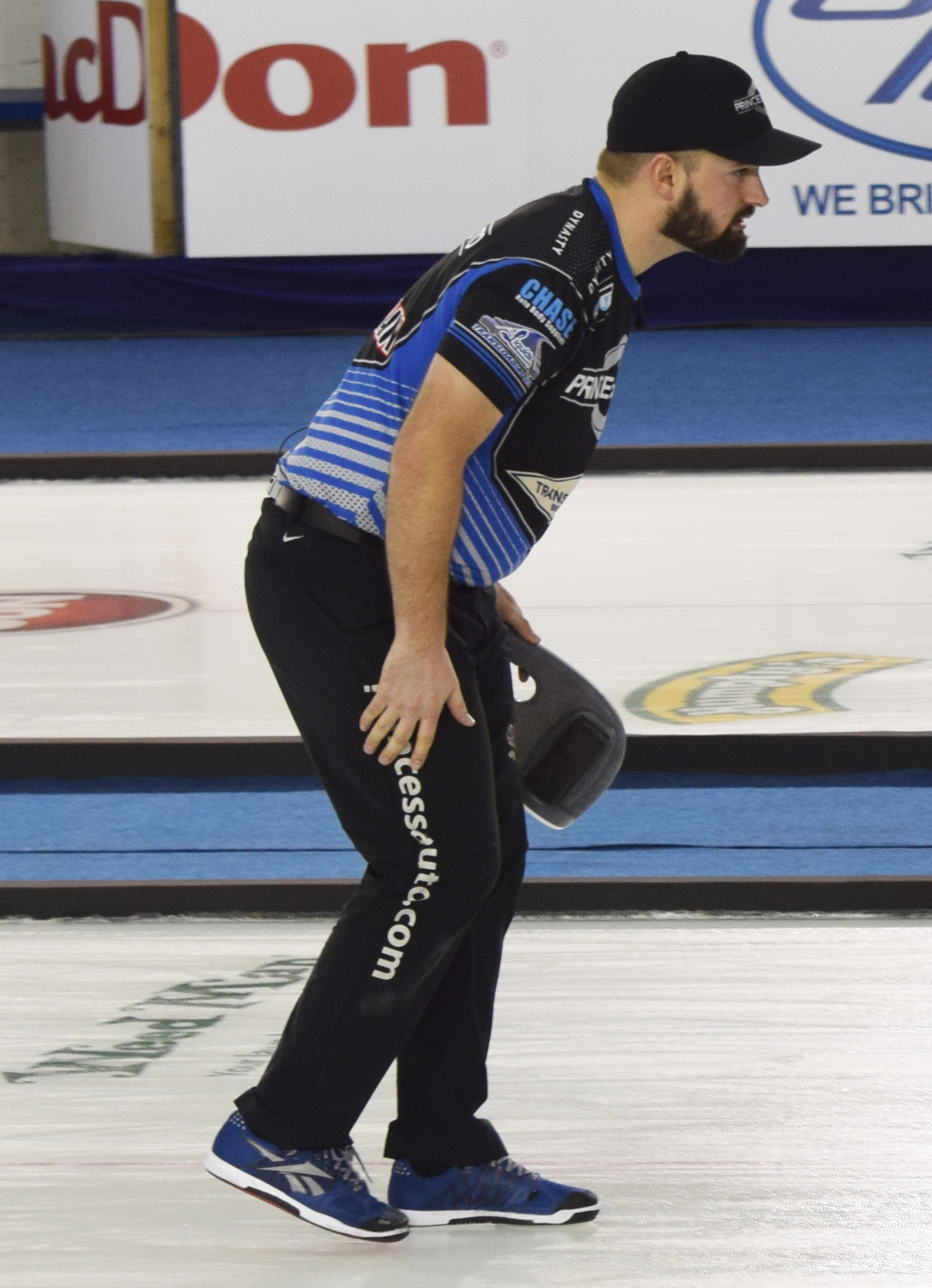 A crop of Reid Carruthers from 2018.